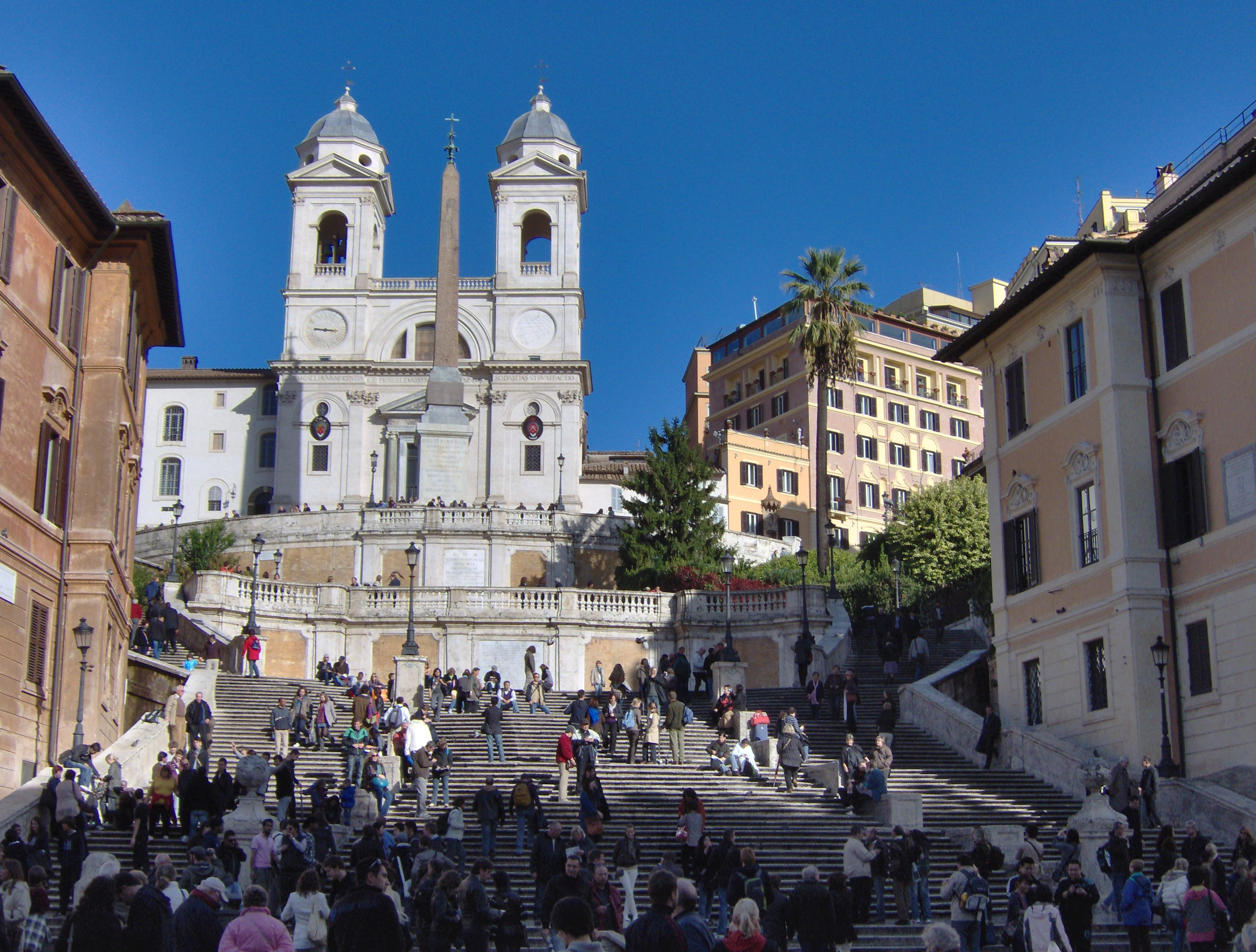 Spanish Steps, Rome, Italy